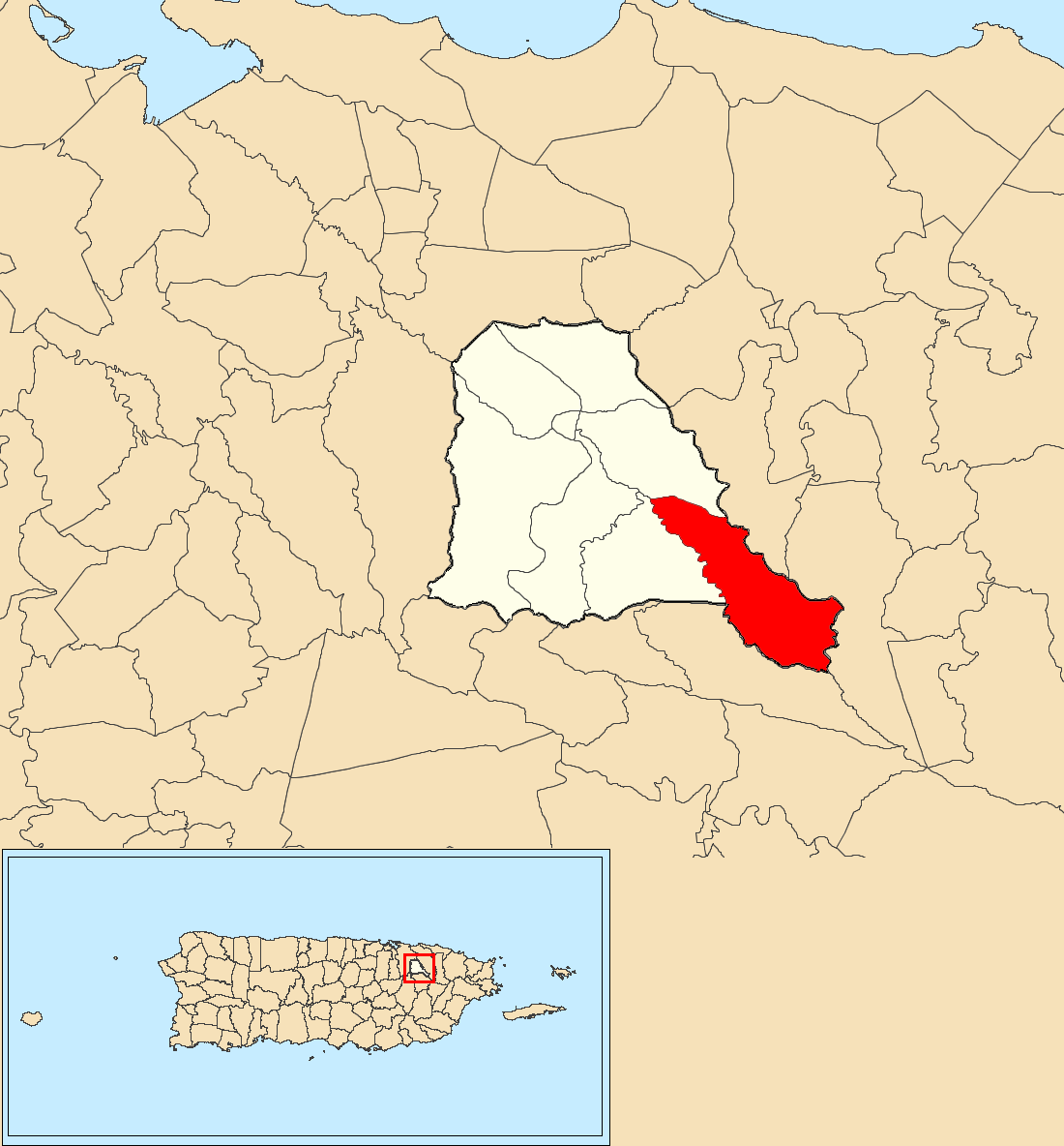 Quebrada Grande, Trujillo Alto, Puerto Rico locator map